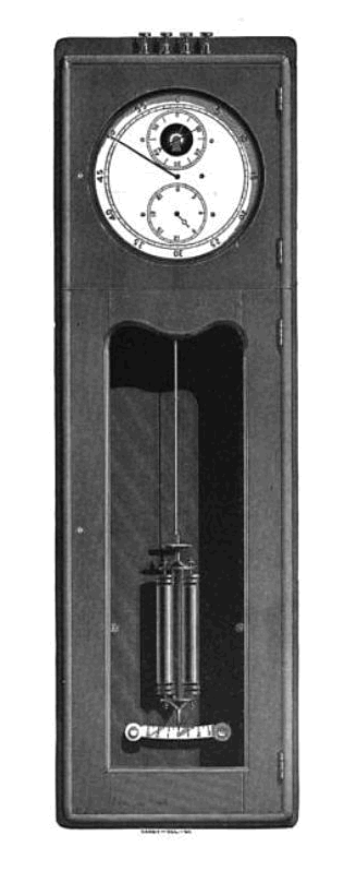 Drawing of a precision astronomical regulator clock made by the E. Howard Clock Co., from a publication by Lick Observatory, CA, USA, 1887. The clock had a pendulum consisting of 4 containers of mercury that compensated for thermal expansion of the pendulum rod with temperature changes. It had a deadbeat escapement. It was installed at Lick Observatory and served to generate electric time signals that were distributed by telegraph wire to railroads and factories in the city of San Jose. For this it had internal switch contacts that generated signal every 2 seconds, connected to the 4 electrical terminal posts seen at the top of the clock. Alterations to image: cropped out second drawing showing clock with case open, and caption, which read: "The Howard mean-time clock".